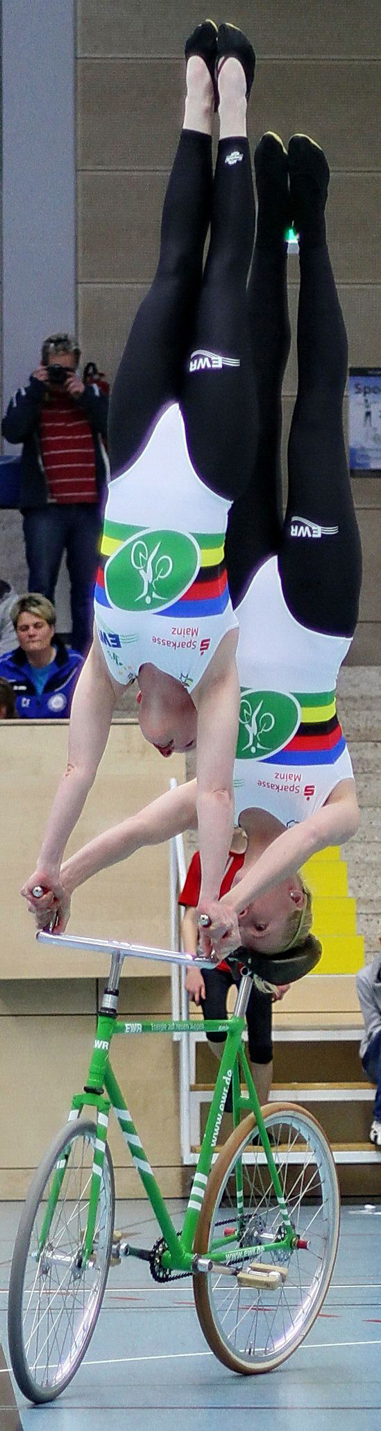 artistic-cycling, Katrin Schultheis, Sandra Sprinkmeier, Germany, world-champions, handstand, headstand